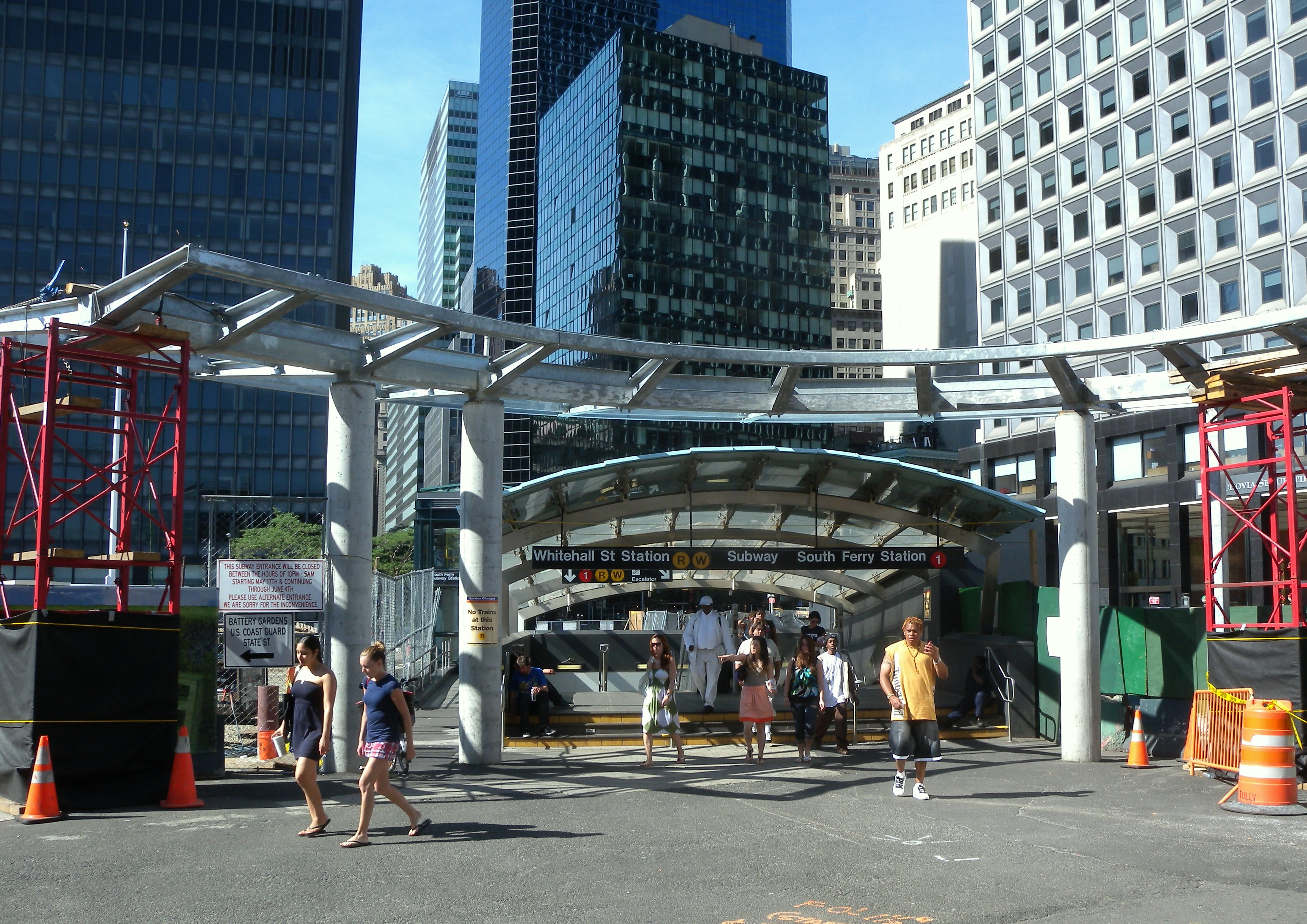 Looking north at new canopy under construction on a sunny afternoon.